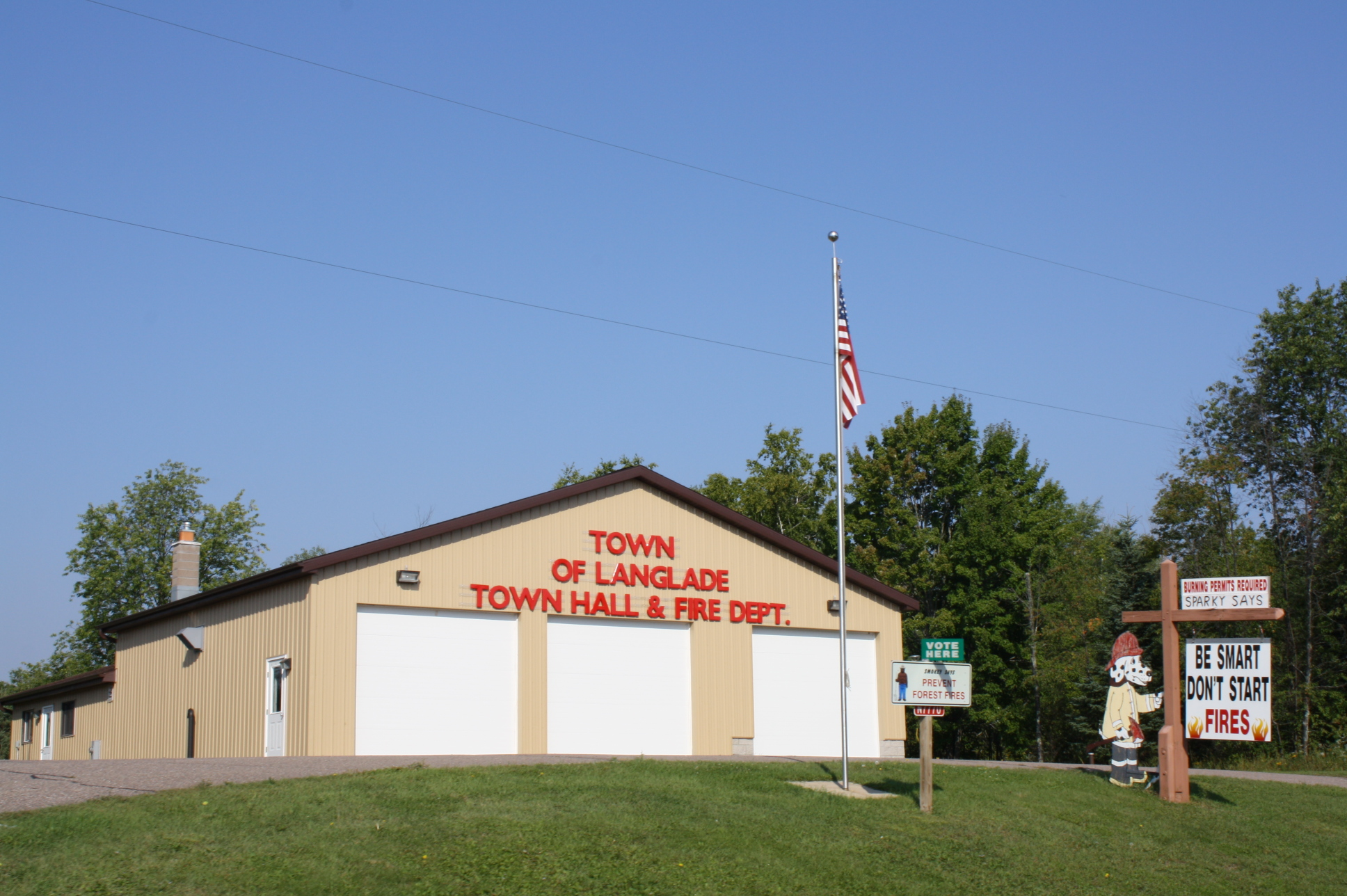 Looking at the fire station and town hall for the town of Langlade in Lily, Langlade County, Wisconsin on Wisconsin Highway 55.